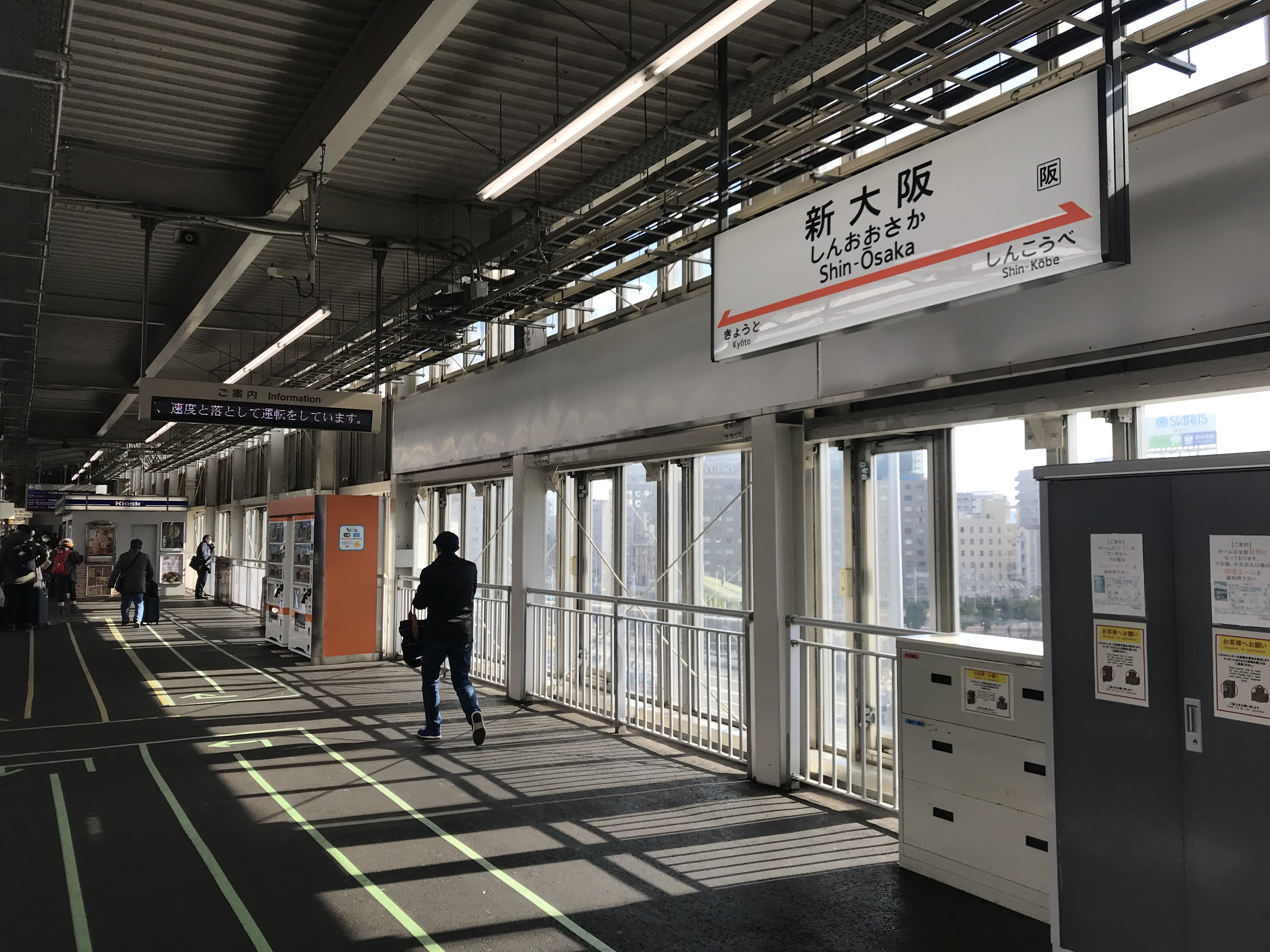 201801 Platform 20 of Shin-Osaka Station